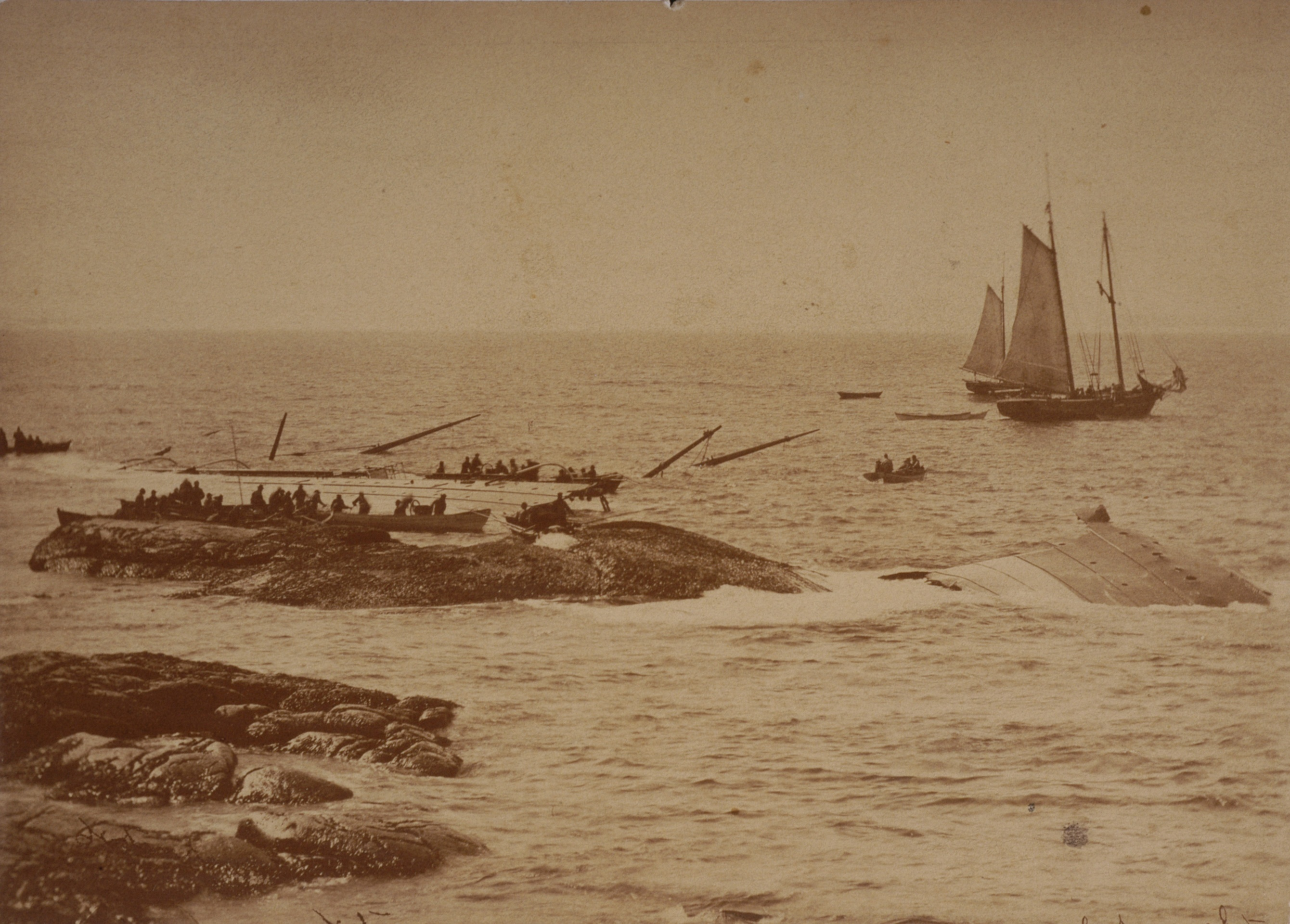 Scene of the White Star liner SS Atlantic disaster (1 April 1873), Marr's Head, Meagher's Island (now Mars Head, Mars Island), Lower Prospect, Halifax County, Nova Scotia, Canada, April 1873.